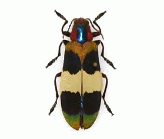 GLAM - Chrysochroa corbetti Cut-out from original (Boite Buprestidae Asie sud est GLAM muséum Lille 2016.JPG) shown below